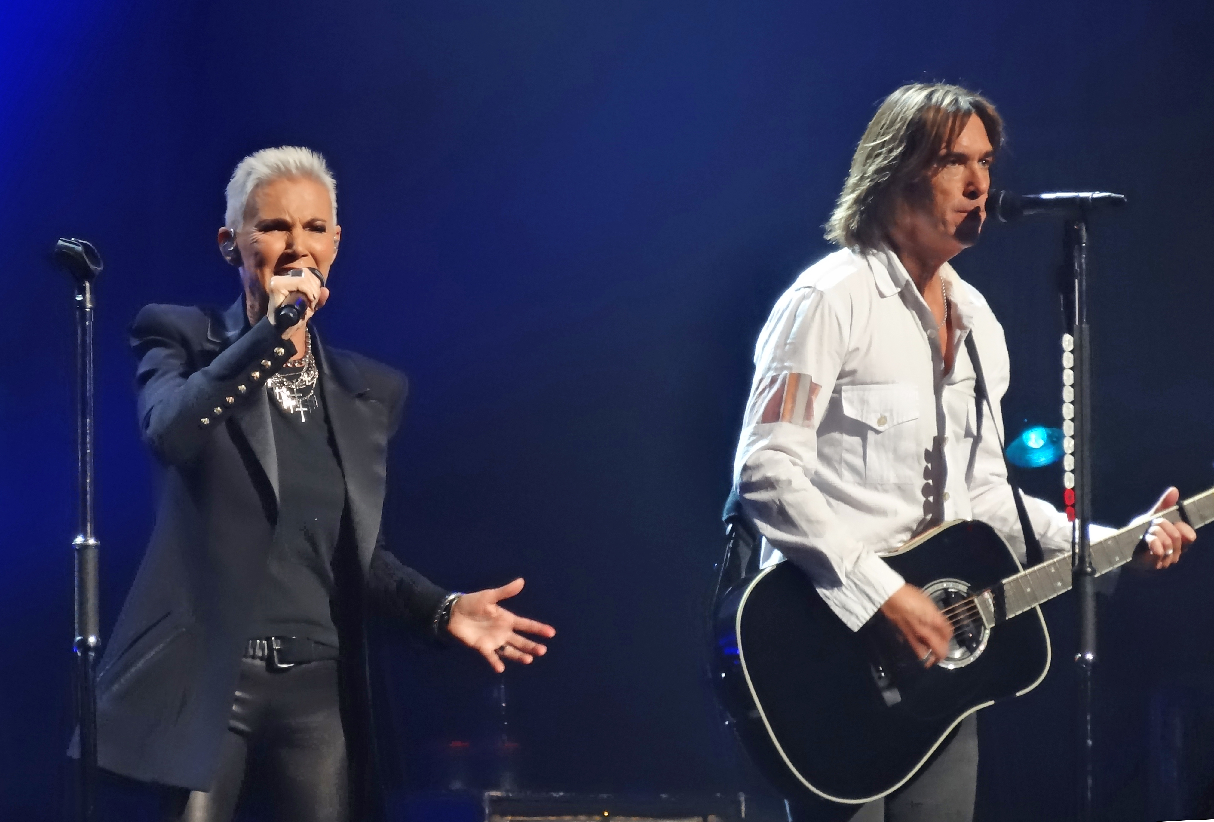 Roxette at the Beacon Theater, NYC